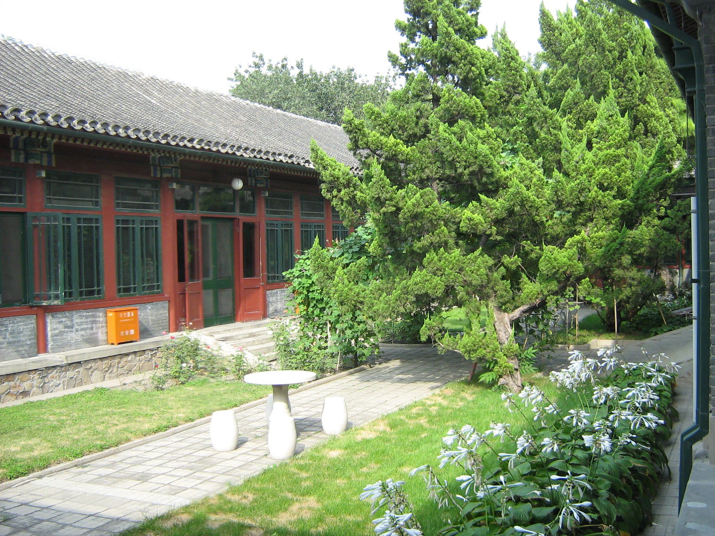 Houzhaofang (back house) in Guo Moruo Memorial, Beijing